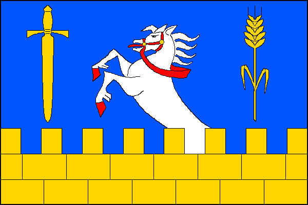 Municipal flag of Borotice village, Znojmo District, Czech Republic.